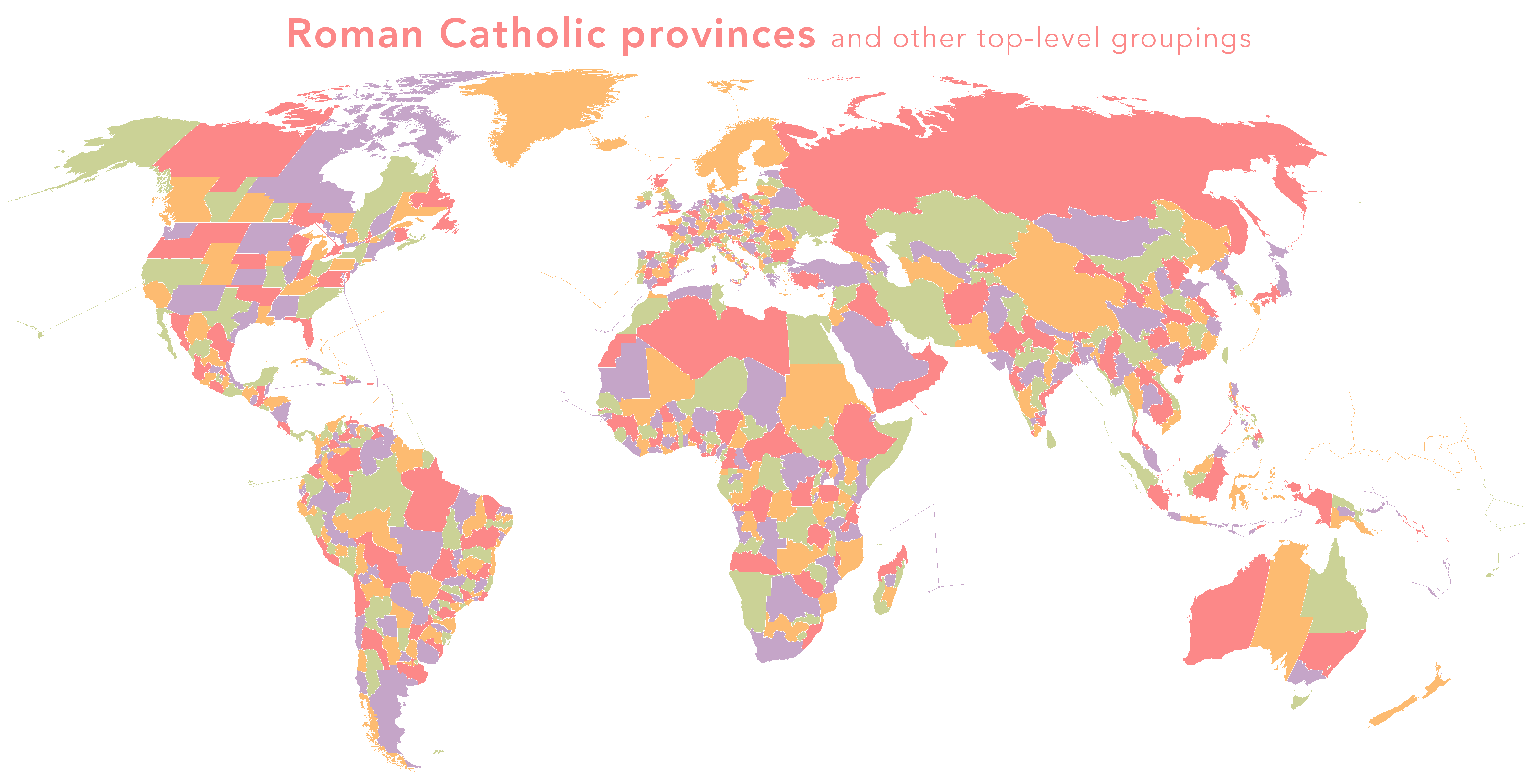 This map shows the provinces of the Roman Catholic Church, as well as archdioceses (or other top-level entities) where provinces are not established.